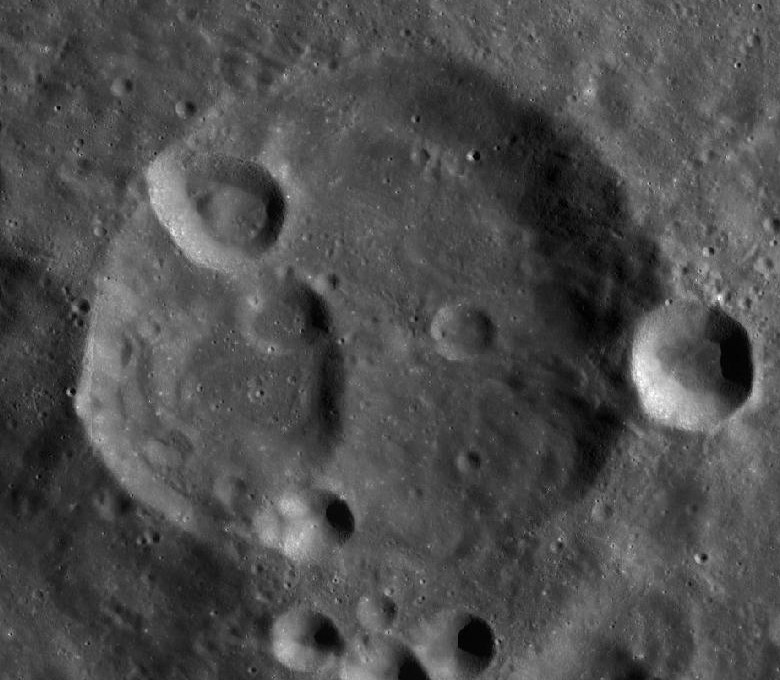 Strömgren crater, on the far side of the moon. Mosaic of LRO WAC images.